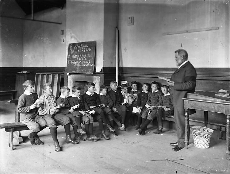 Group of boys and school master C L Wiggins, Christ's College, Christchurch. Group of boys and school master C L Wiggens at Christ's College, Rolleston Avenue, Christchurch. Taken in one of the tin classrooms on the site of the present (1997) Hare Memorial classroom.